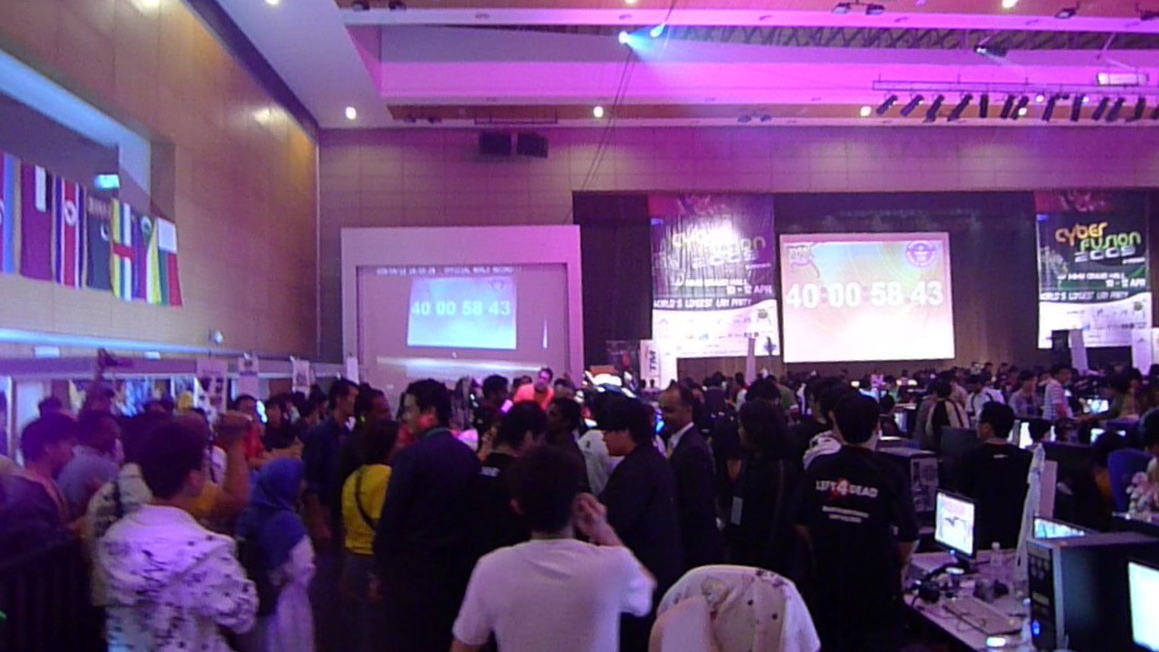 Cyberfusion 2009 in Cyberjaya. 274 people played video games for 40 hours non-stop over LAN, which entered the Guinness Book of World Records.